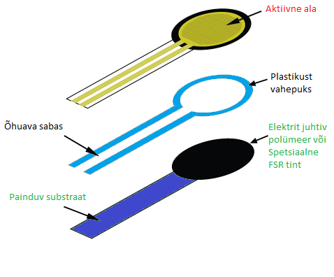 Description how FSR-s are built.